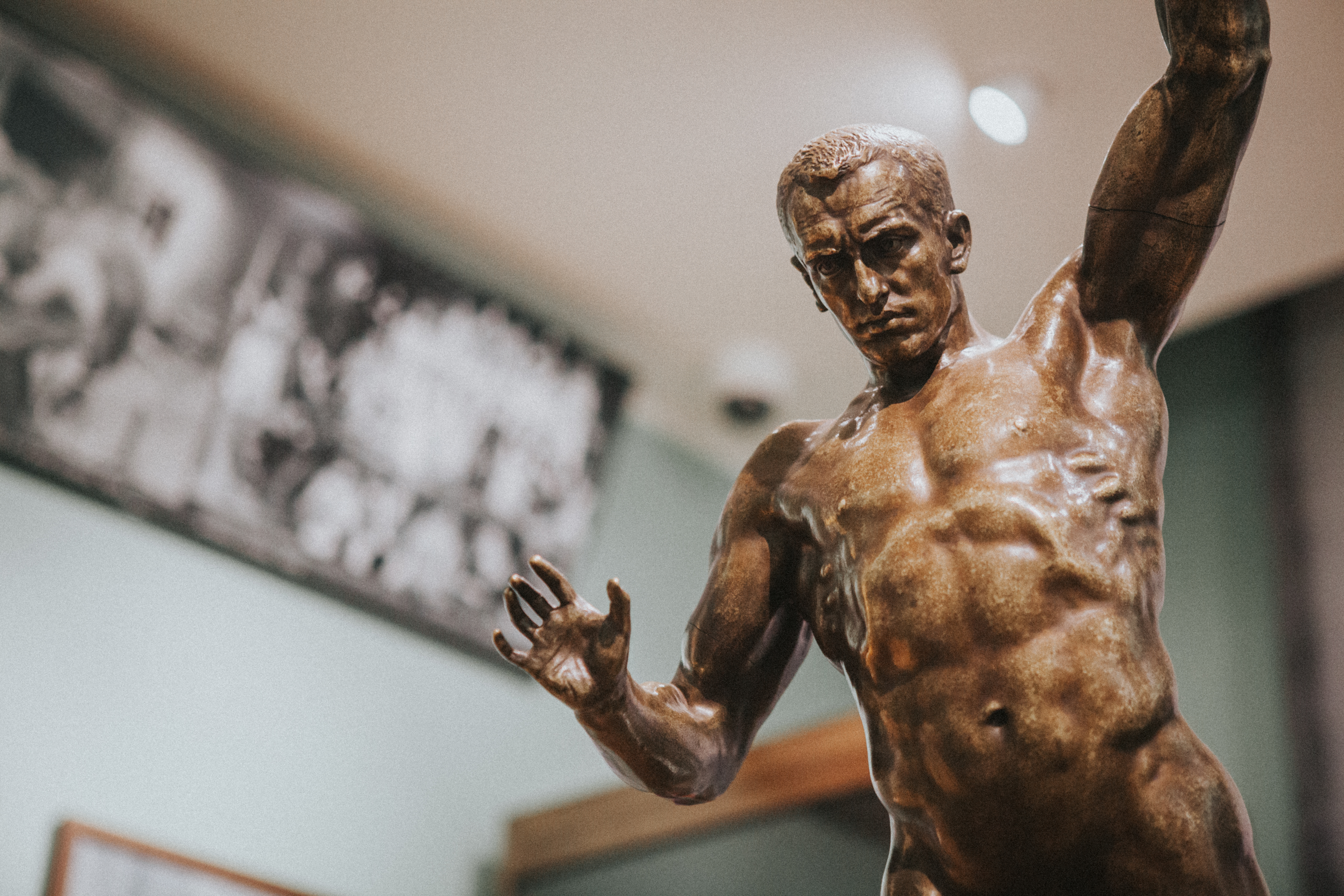 Inside the Estonian Sports Museum